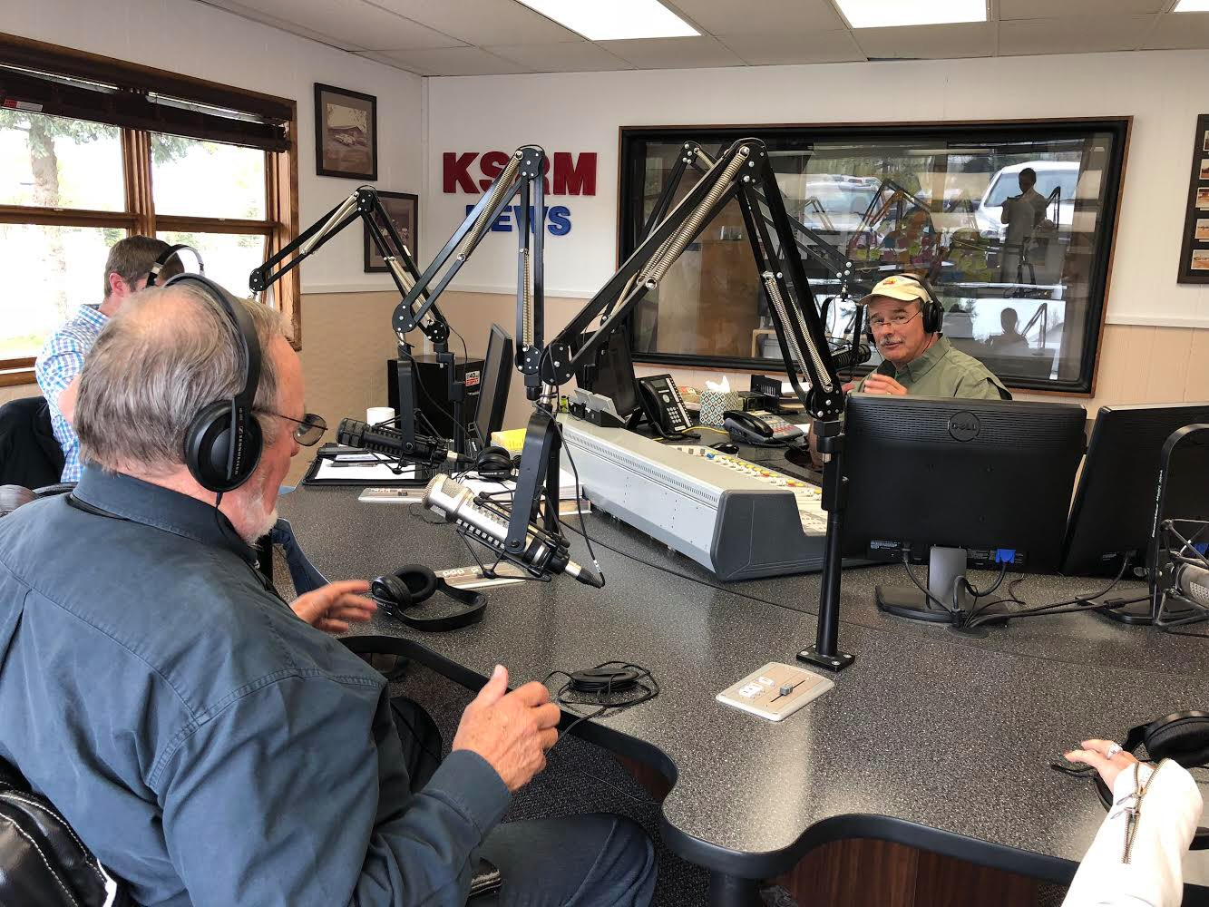 It was great to join my friend Bob Bird in the studio this afternoon on @ksrmam. We had a great discussion about what I’m working on in DC for Alaskans. #theBirdsEyeView